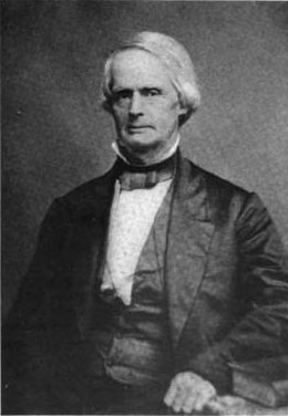 Kentucky Congressman Edward Rumsey